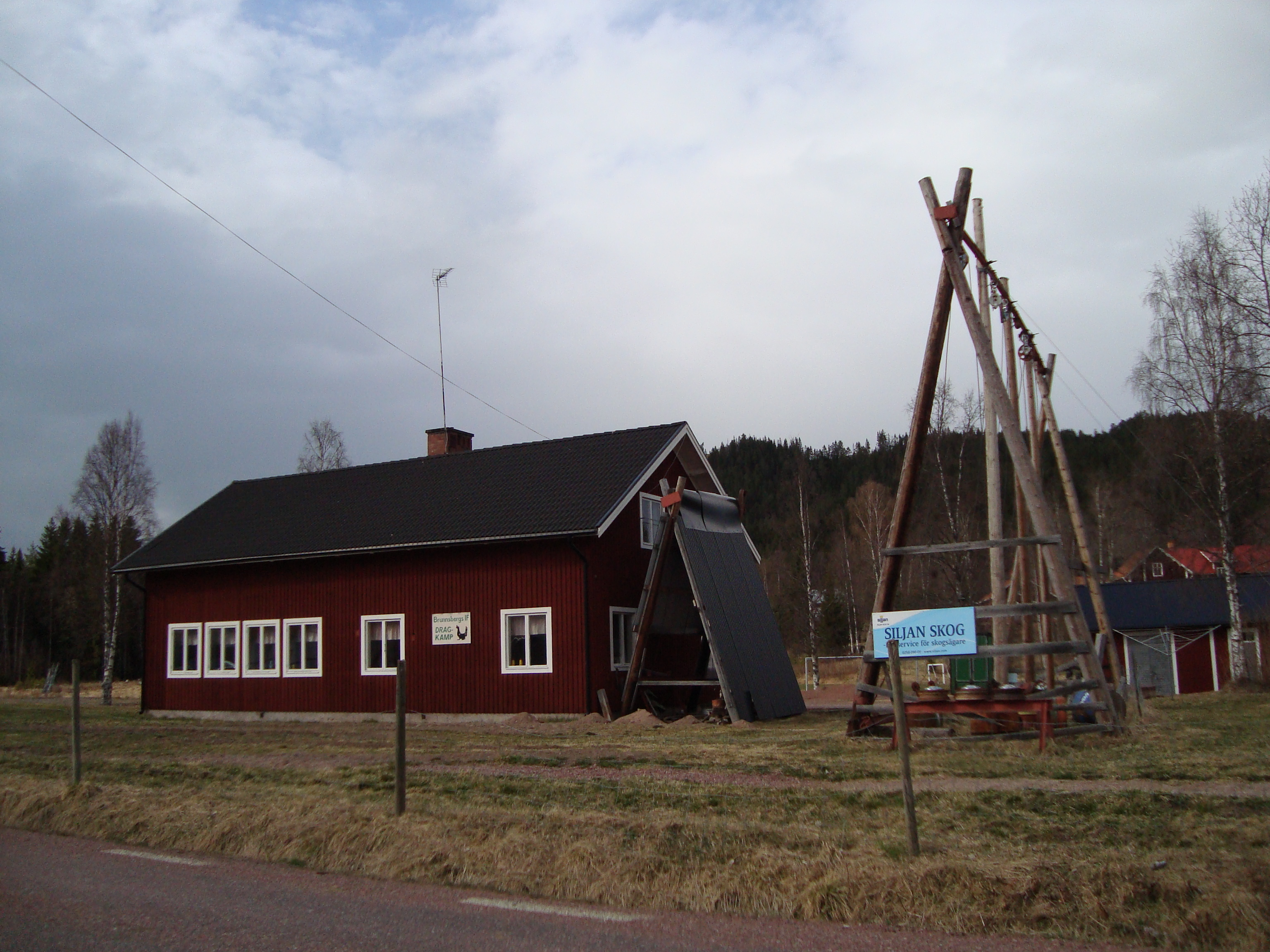 Brunnsbergs IF (Tug of war sports club), Älvdalen Municipality, Sweden